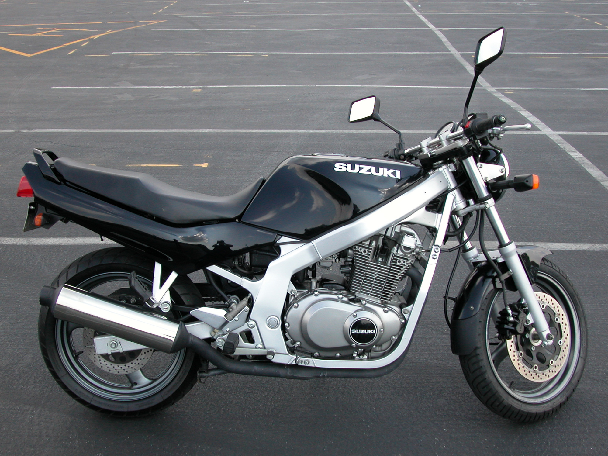 1997 Suzuki GS500E in black in the Rose Bowl parking lot. The camera used is a Nikon Coolpix 5000.